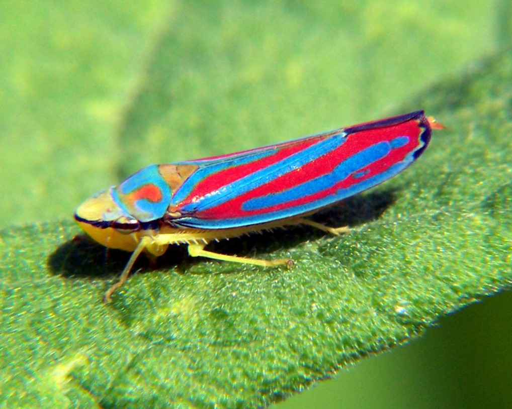 Adult leafhopper, Graphocephala coccinea